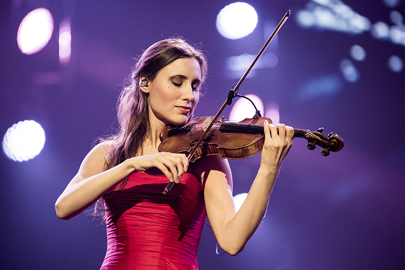 Night of the Proms 2016, Atlas Arena, Lodz, Poland